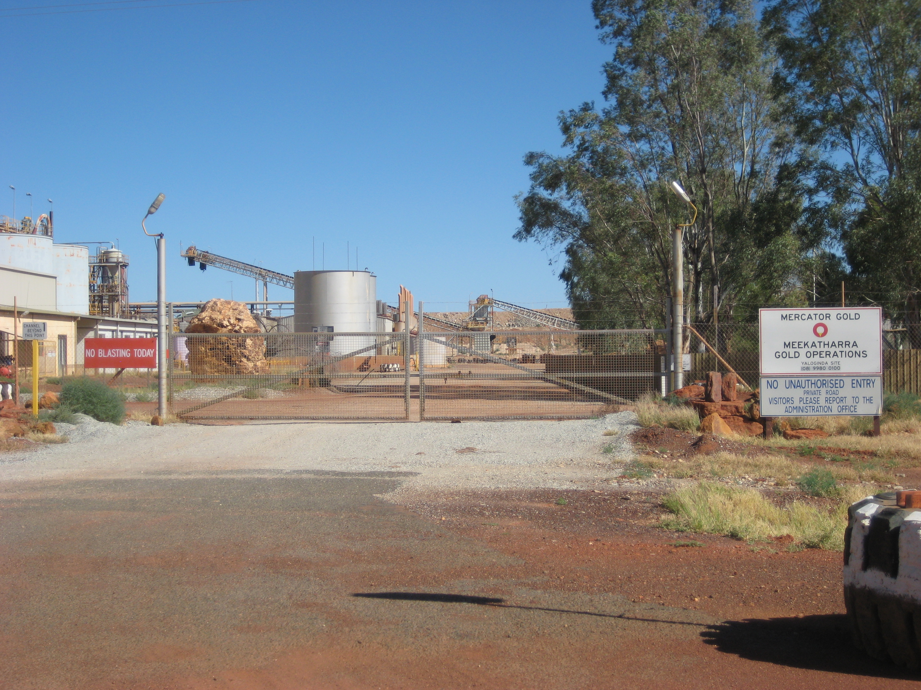 The Bluebird Gold Mine, near Meekatharra, Western Australia.